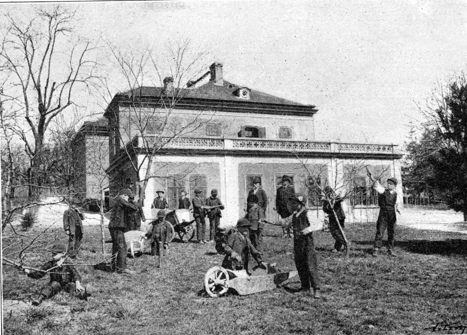 Feslová homestead in Vinohrady, Prague. Photo by Eduard Petrák